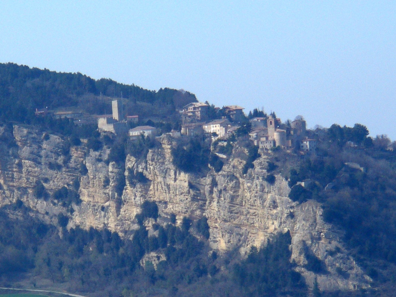 Panoramic view of Montefalcone Appennino (FM), Italy.